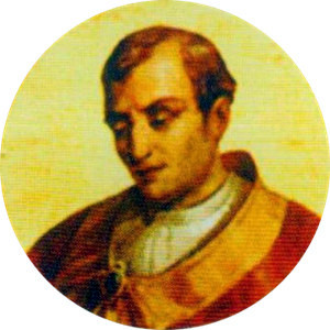 Portait of Pope Donus in the Basilica of Saint Paul Outside the Walls, Rome